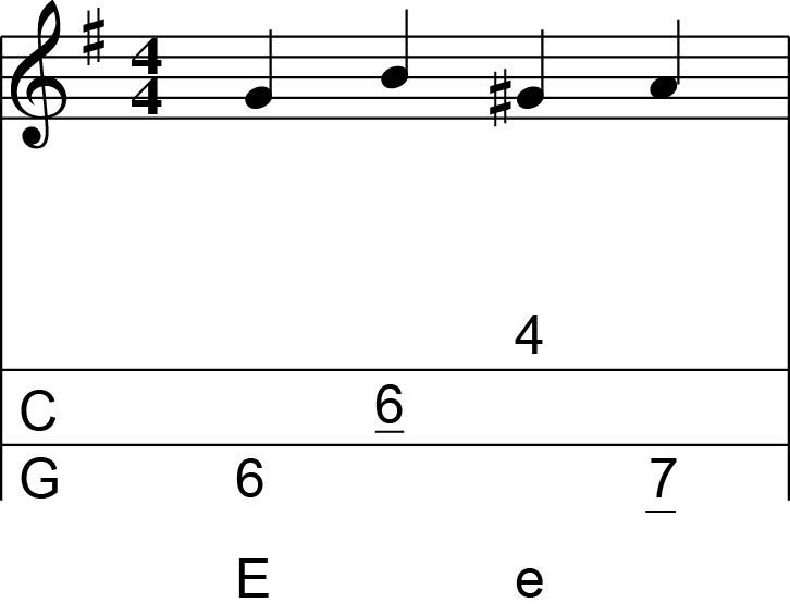 Example of the row-oriented tablature system for diatonic accordion